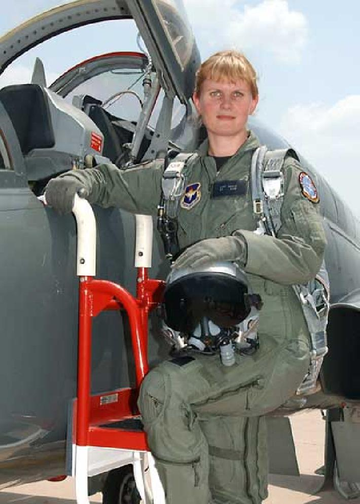 In September 2005, 26-year-old Lt. Line Bonde graduated from the Euro-NATO Joint Jet Pilot Training program at Sheppard Air Force Base in Texas, USA, and makes history to became as Denmark's first female fighter pilot.